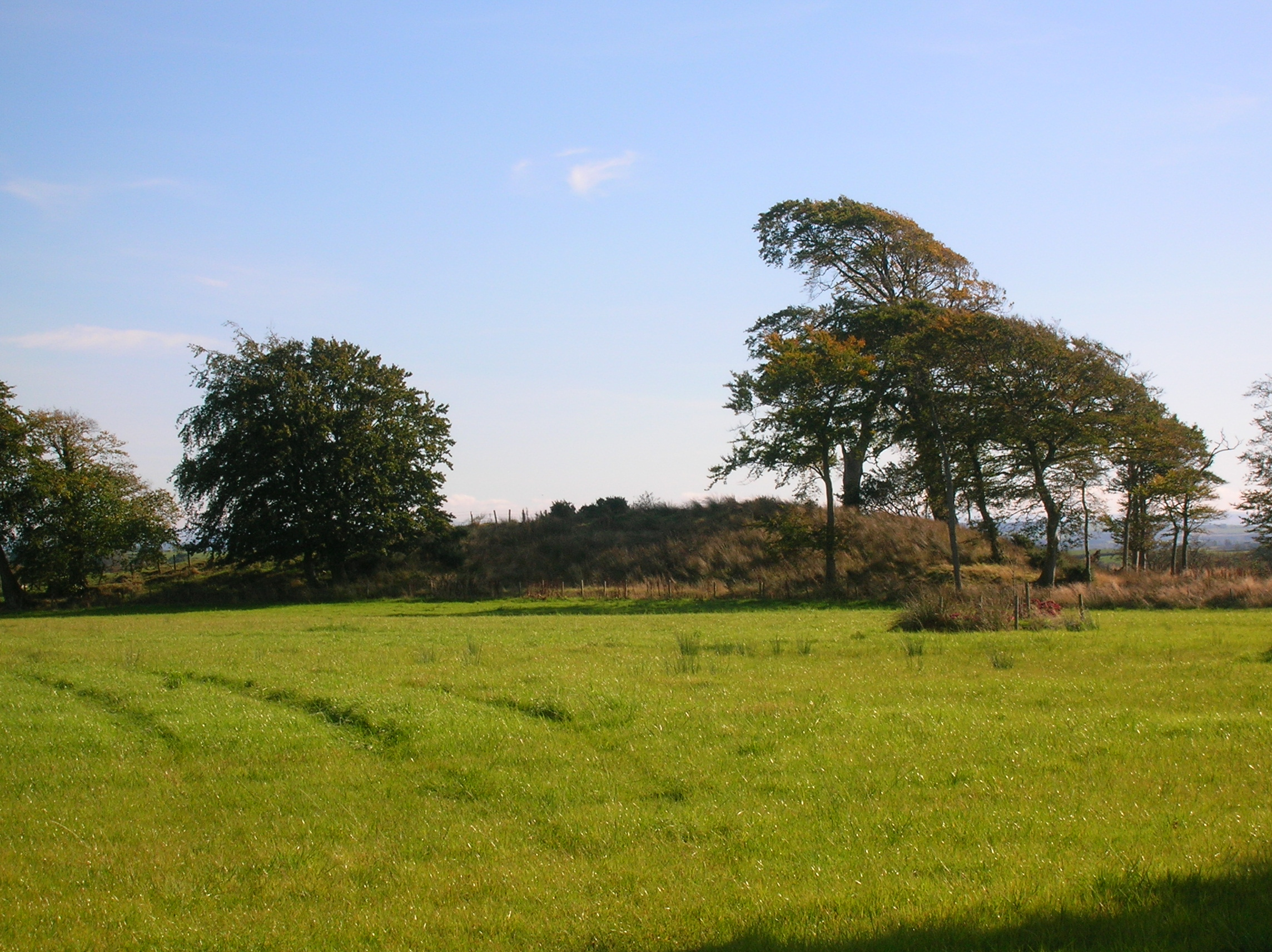 Stacklaw hill, North Ayrshire, Scotland. A possible Moot hill. It is close to the HUtt Knowe near Bonshaw farm.